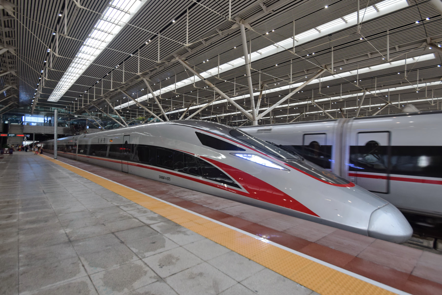 G311 CR400AF-A-2075 was stopping at Shenzhen Bei (North) Railway Station.